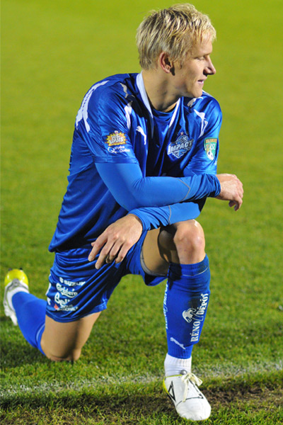 Photo of soccer player, David Testo.